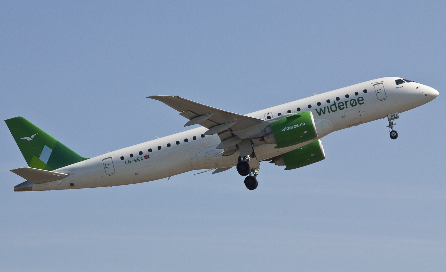 Widerøe Embraer E190-E2 (leased to Finnair) flight AY941 (HEL-BGO) departure Helsinki-Vantaa Airport (HEL/EFHK) rwy 22R July 22nd 2018 Olympus Pen Mini E-PM1, VF-2, Canon 85mm f/1.2 L (170 mm equivalent FOV)